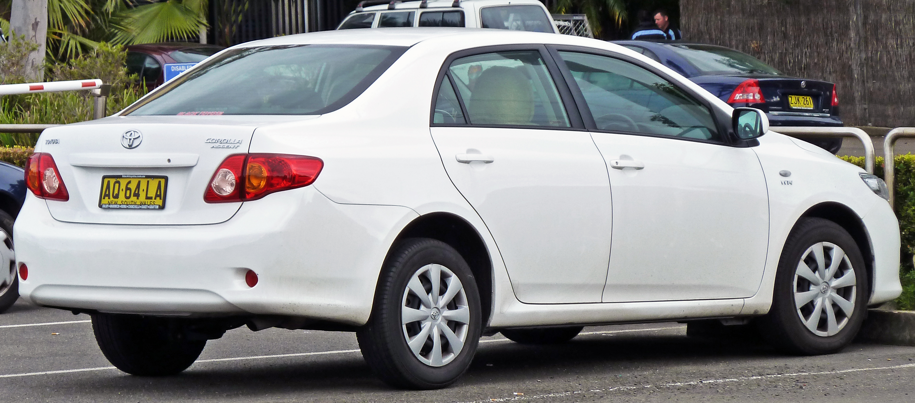 2007–2010 Toyota Corolla (ZRE152R) Ascent sedan. Photographed in Woolooware, New South Wales, Australia.